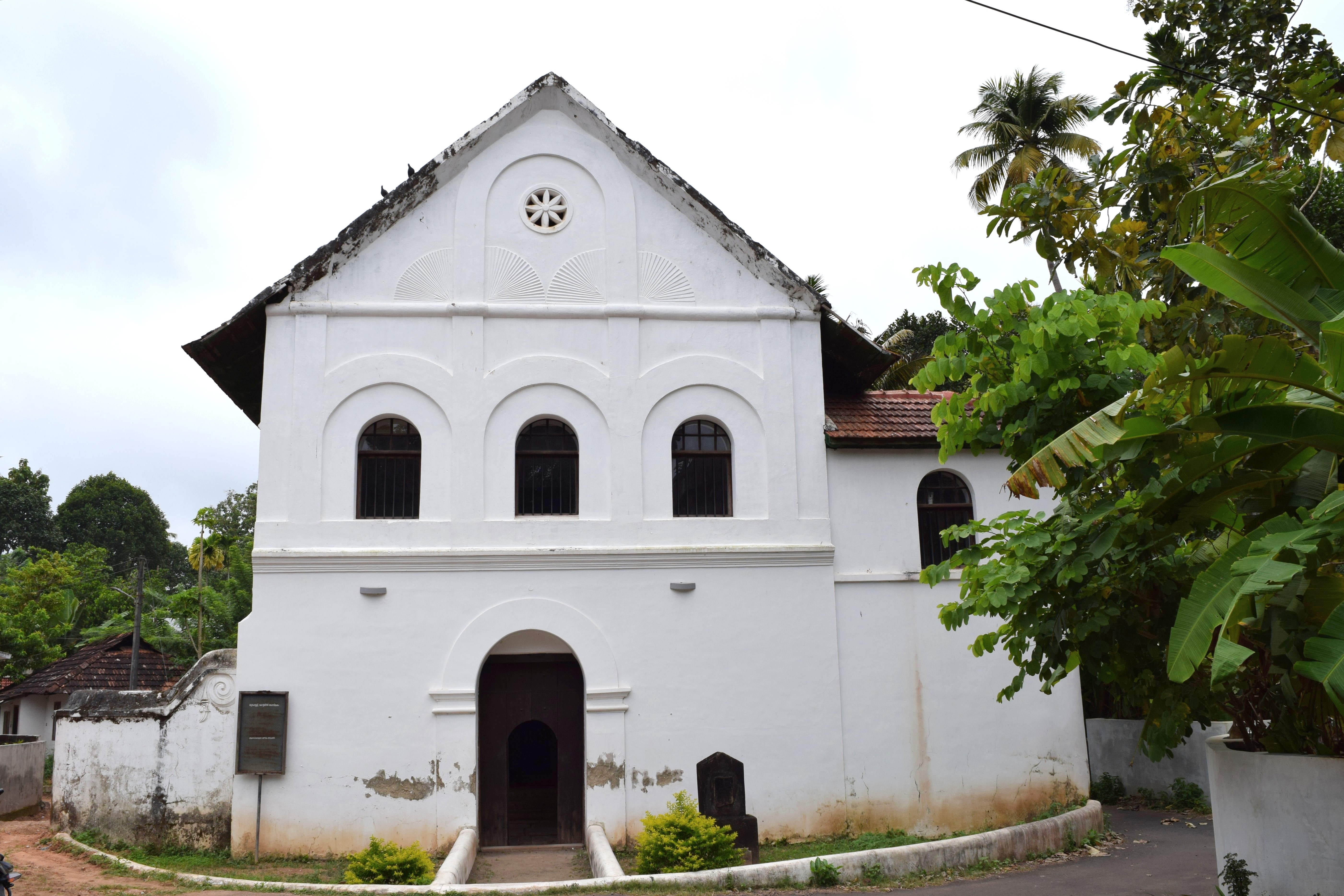 Jewish Synagogue, Kottayilkovilakam, Ernamulam, Chendamangalam, Kerala 683521